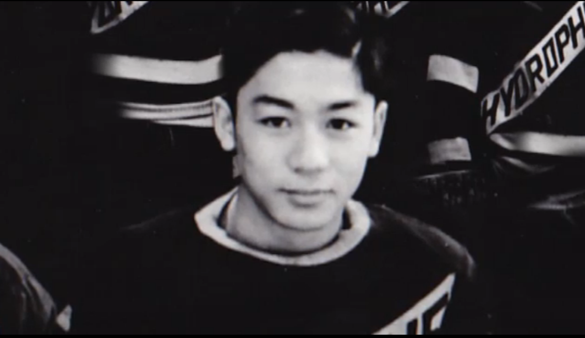 Larry Kwong with the Vernon Hydrophones, Vernon, BC, early 1940s/late 1930s.